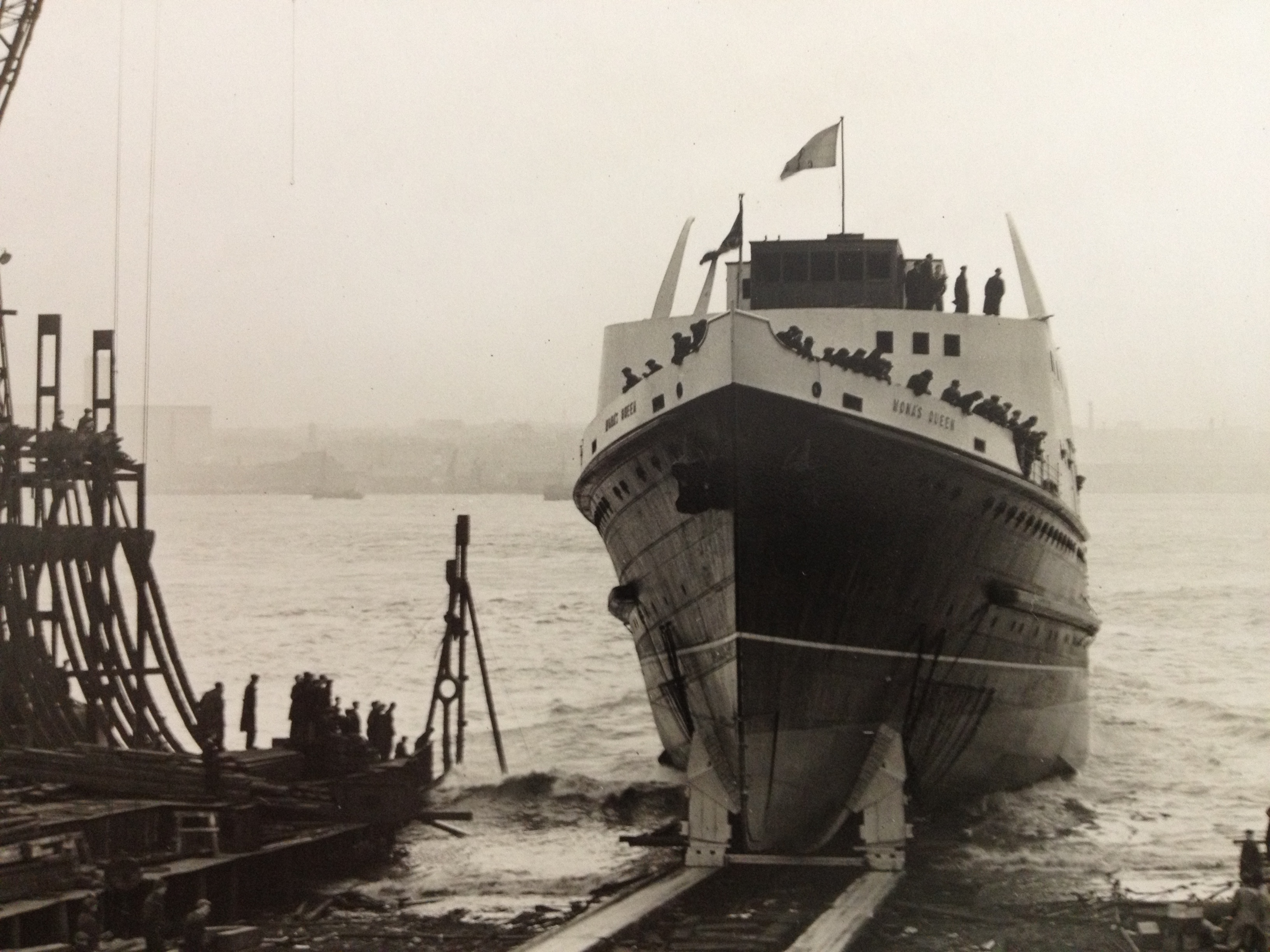 Mona's Queen being launched at Cammell Laird's, Birkenhead, February, 1946.